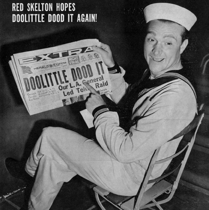 Photo of Red Skelton with "Doolittle Dood It" newspaper headline. Rationale Page 2-copyright information (PDF) Page 2 of the magazine is labeled as "Copyright 1942, Triangle Publications". A search of U.S. copyright renewal records for Triangle Publications turns up no items pertinent to this magazine's title. Movie-Radio Guide turned up no information at all. There is no evidence of copyright renewal on behalf of Triangle Publications for this magazine and none that the company claims copyright on it.